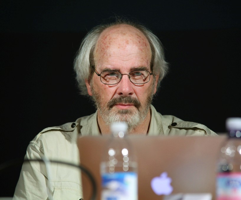 Event: Meet the Media Guru | Jack Horner Date: 29th May 2012 Venue: Museo di Storia Naturale, Milan, Italy Twitter: @mmguru / #MMGHorner Photo by Paolo Sacchi